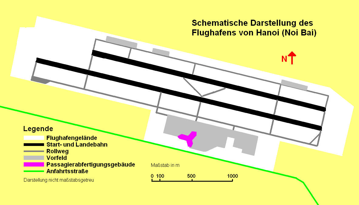 map of hanoi airport